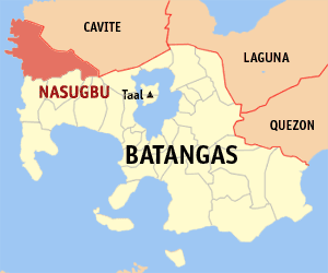 Map of Batangas showing the location of Nasugbu